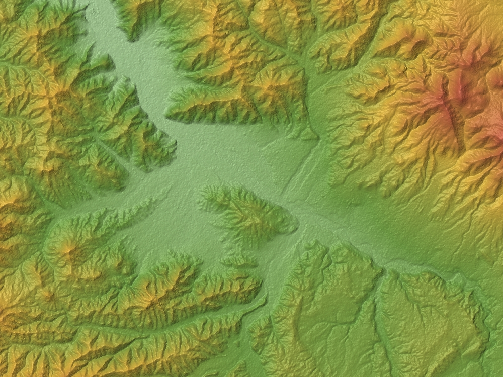 Ueda Basin in Nagano Prefecture, Honshu, Japan.